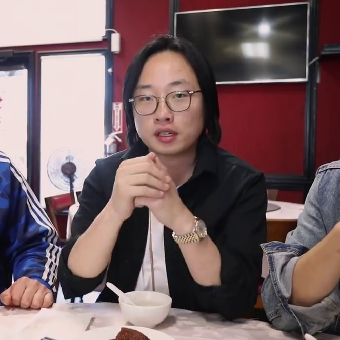 Comedian Jimmy O. Yang in a video created by the Fung Bros.